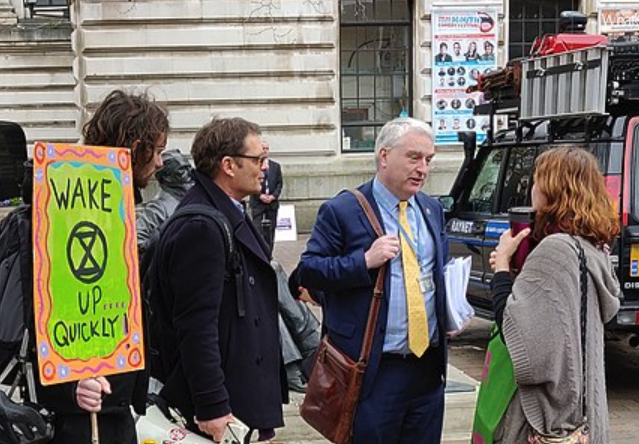 Politician Gerald Vernon-Jackson talking to Extinction Rebellion activists outside Portsmouth Guidhall, on 19 March 2019